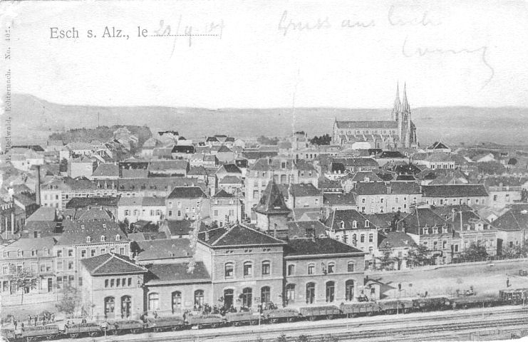 Esch-sur-Alzette, panorama with quartier de la gare, Photo by J.M. Bellwald, N° 401.